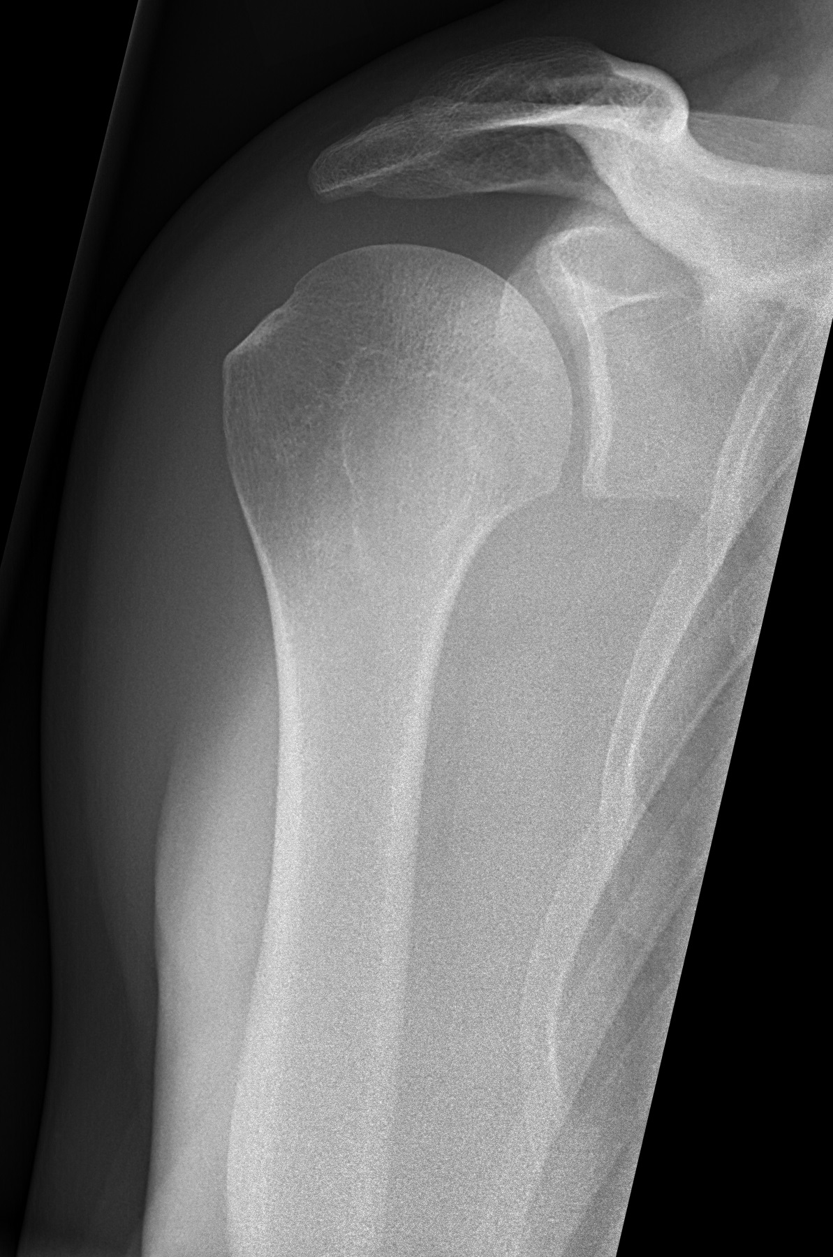 Anteroposterior glenoid ("Grashey view") projectional radiograph ("X-ray") of the right shoulder of a 31 year old man with recurrent shoulder dislocation. It shows no skeletal or soft tissue abnormalities (the malfunctioning rotator cuff is not seen).